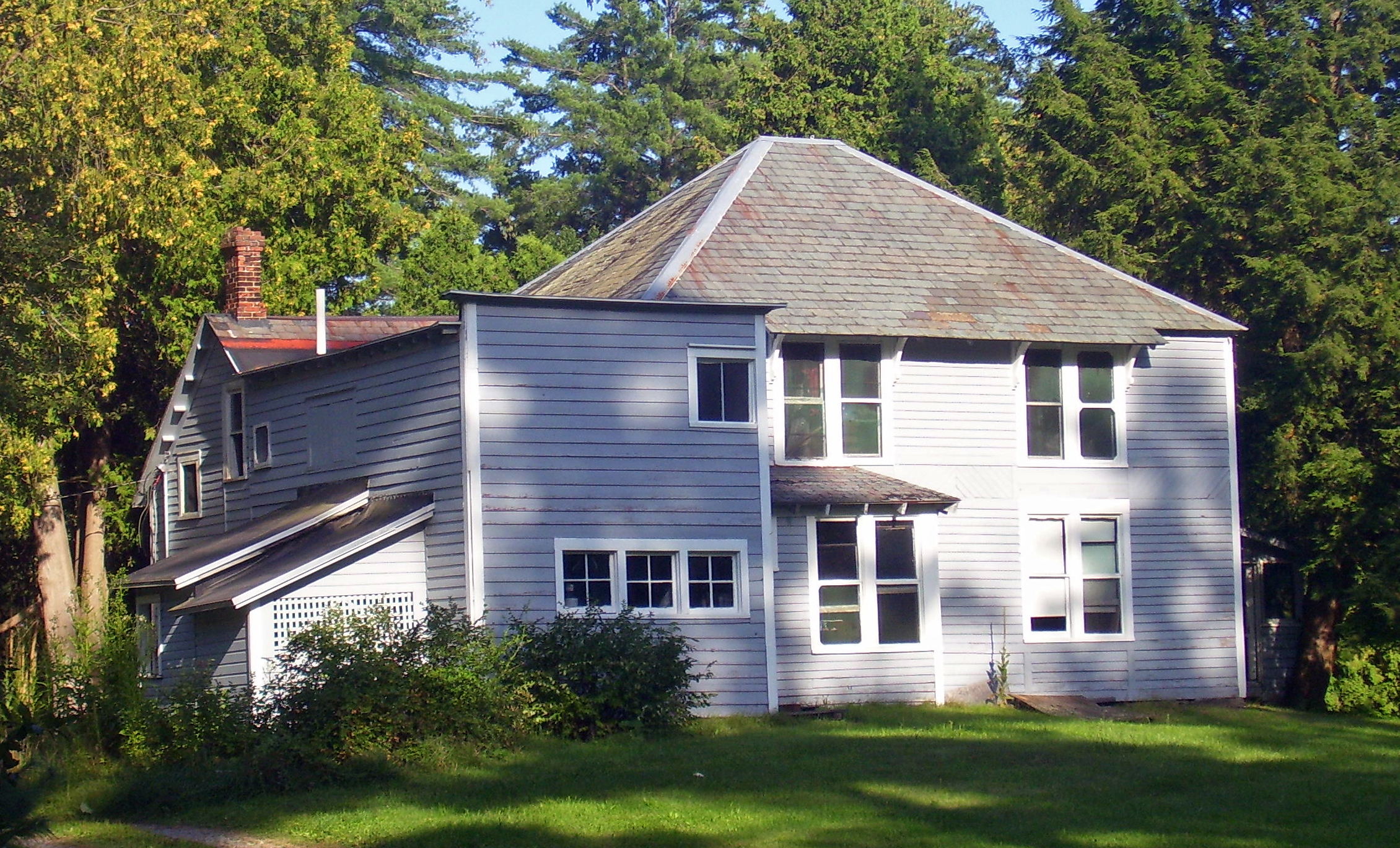 Owl's Nest, summer retreat and later home of writer Edward Eggleston, Lake George, NY, USA